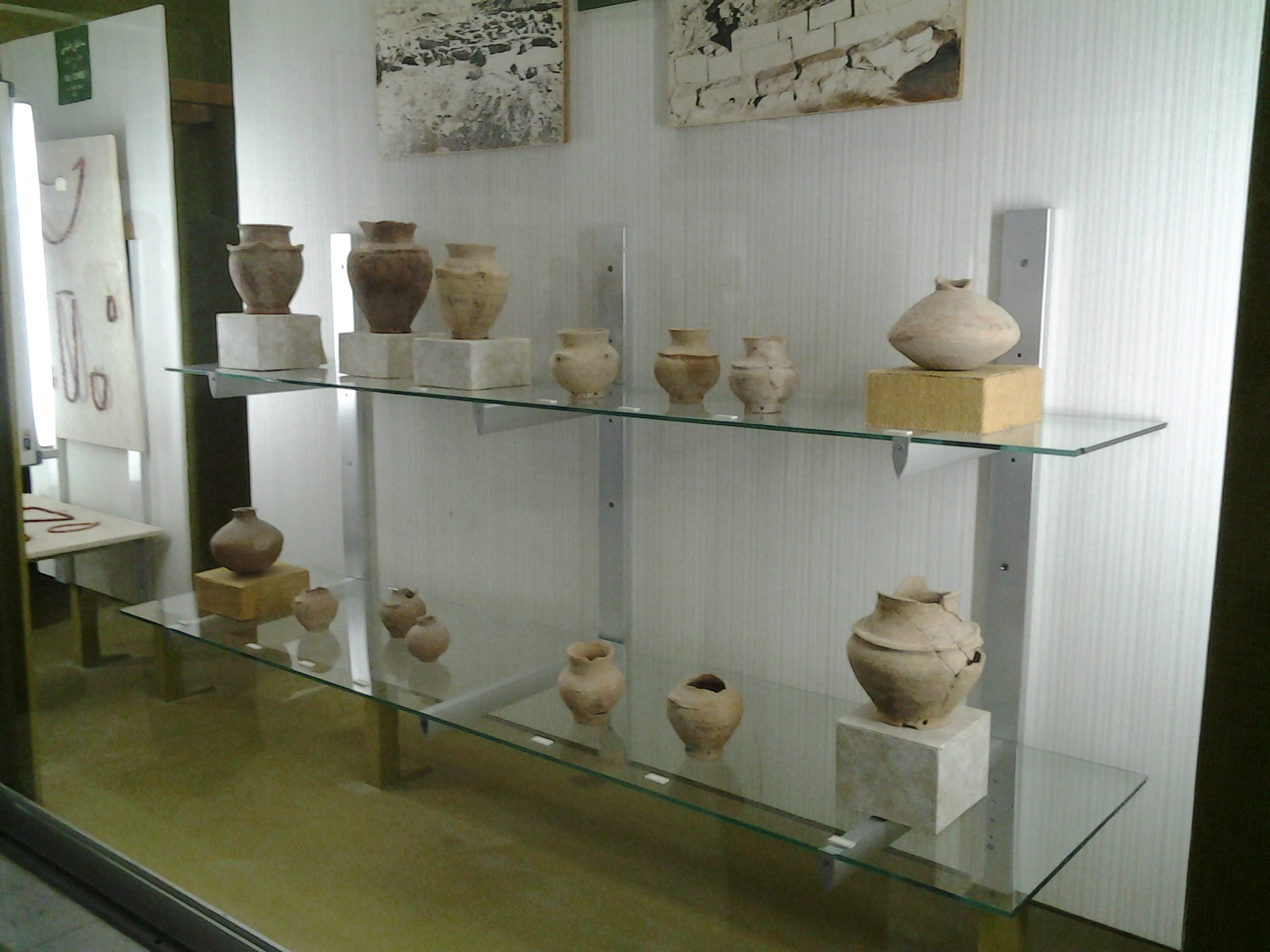 Pottery from the olden times in the city of Al Ain displayed in the Al Ain National Museum.